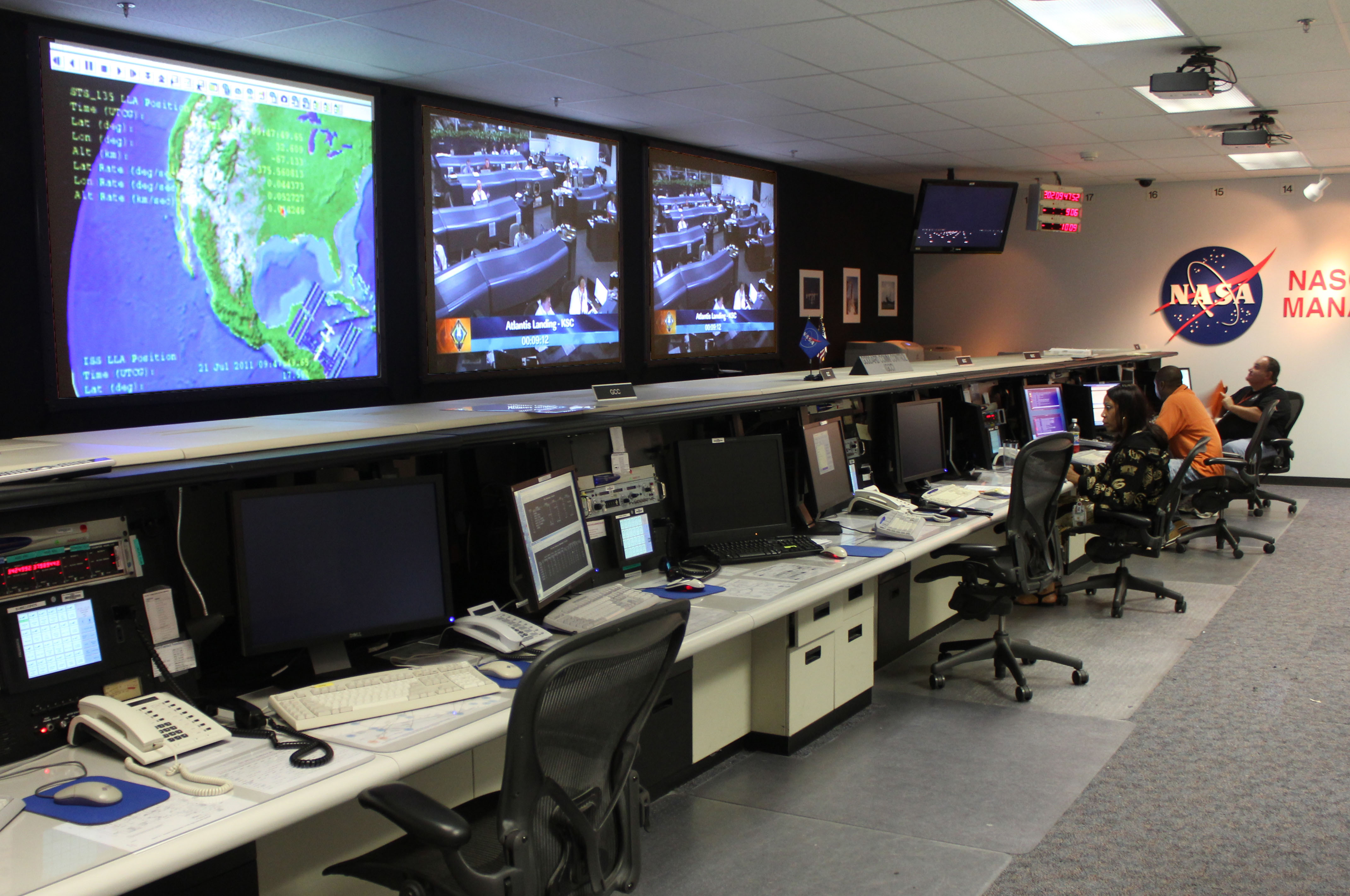 NASA Goddard engineers in the NASCOM control room during the final landing of Atlantis.